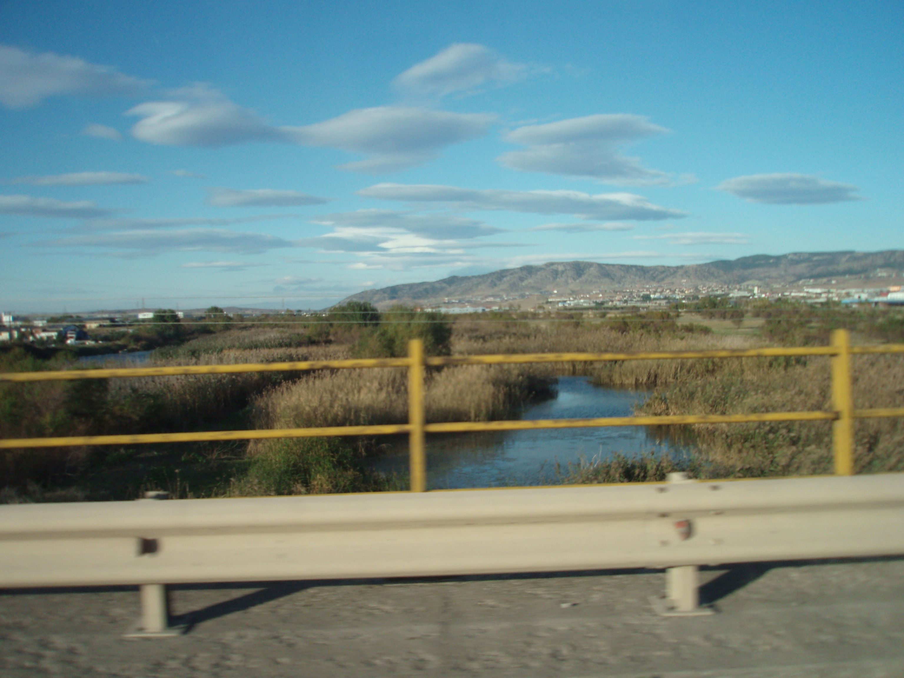 Gallikos river, Eleftherio-Kordelio municipality, Thessaloniki prefecture, Greece. Seen from bridge of National Road 2 northwards.